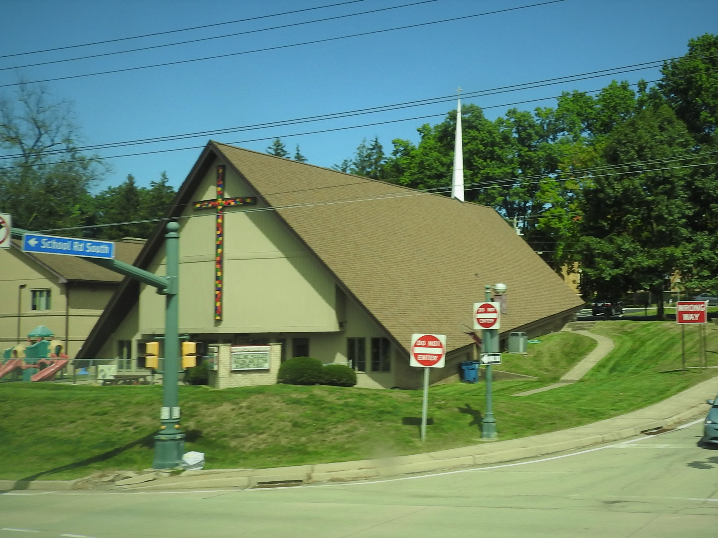 Looking north from a passing bus on a sunny midday